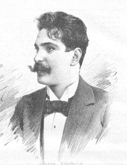 Portrait of Dezső Arányi (1859-1923), Hungarian opera singer